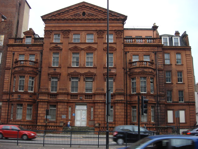 Former Samaritan Hospital, Marylebone Road The Samaritan Hospital has now re located to St. Mary's NHS trust, Pread Street leaving this building derelict.